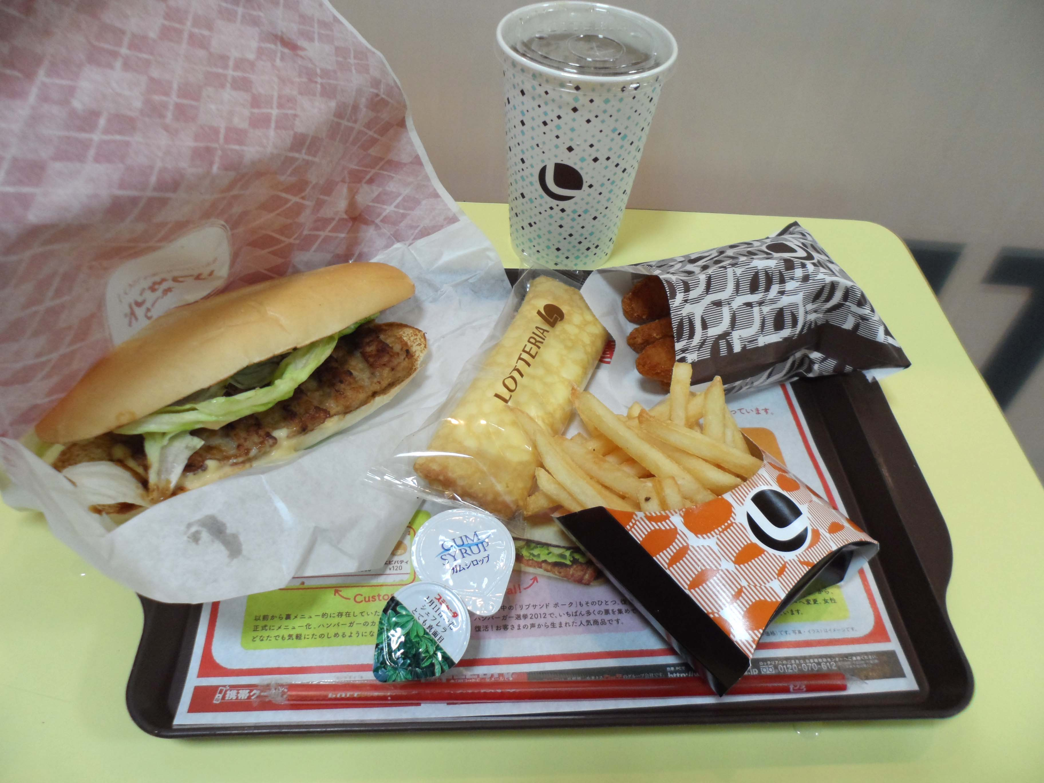 Lunch at Lotteria, Tokyo